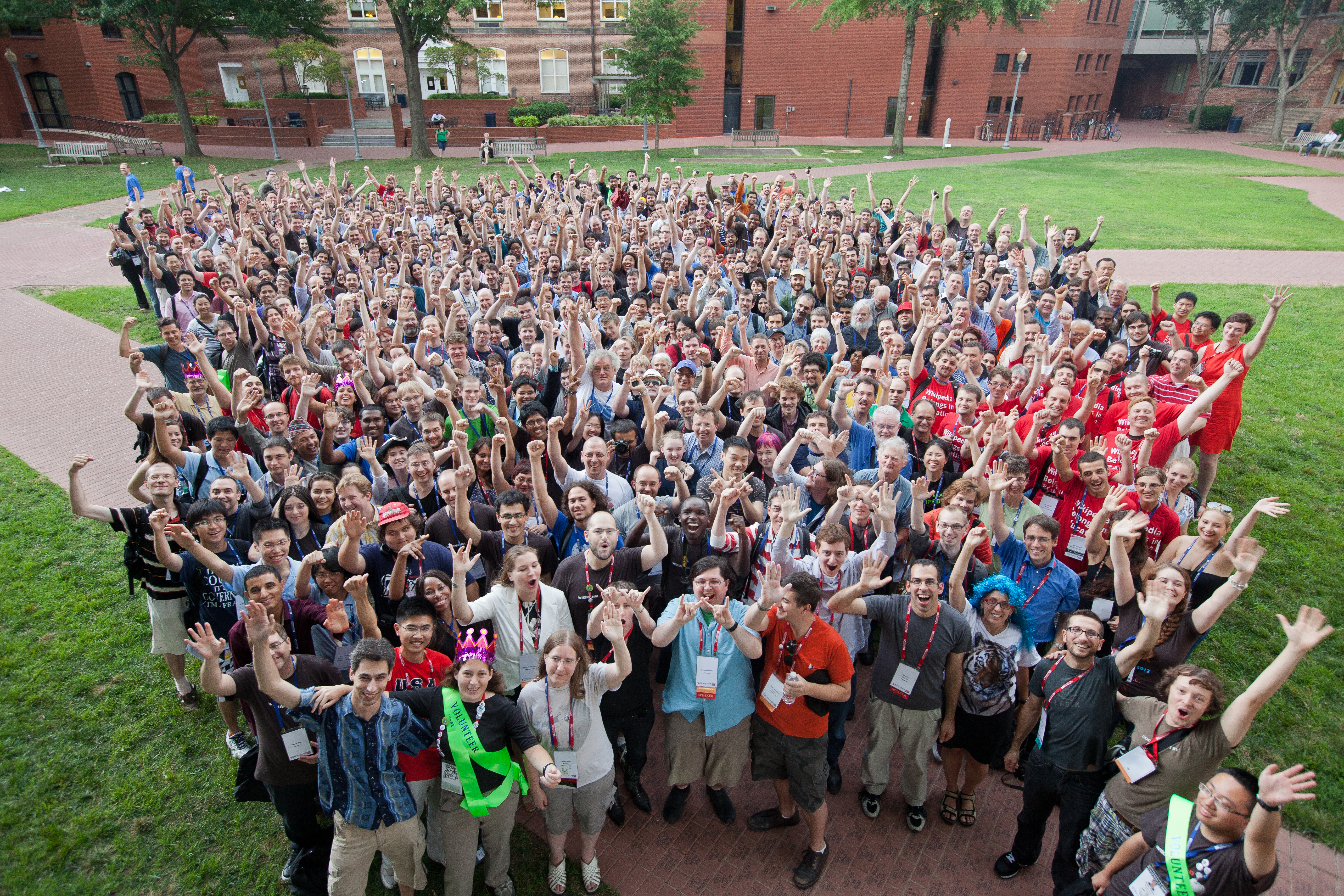 Washington DC